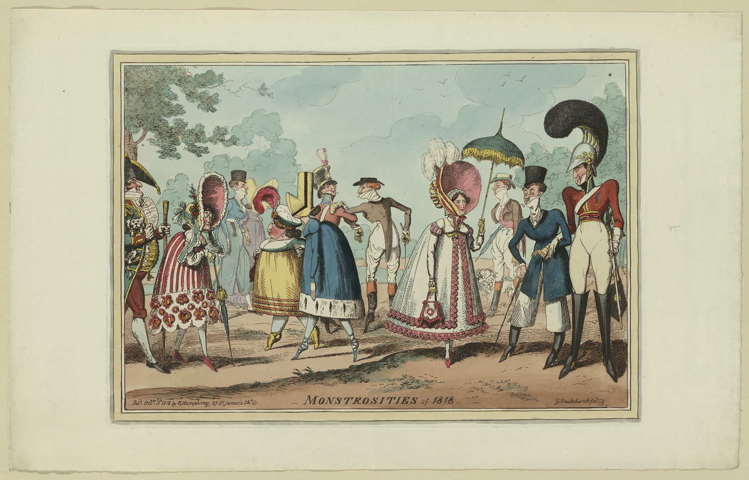 "Monstrosities of 1818" contemporary caricature of 1818 British fashion.